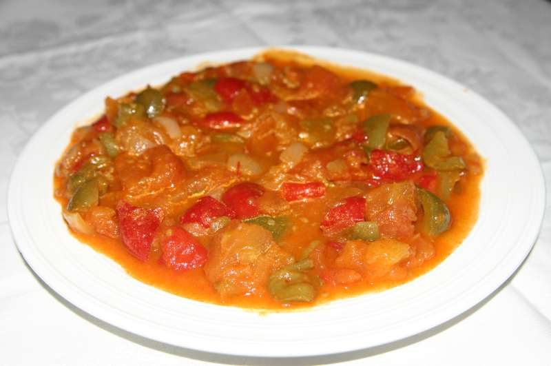 Matbucha - A cooked peppers and tomatoes Mediterranean salad